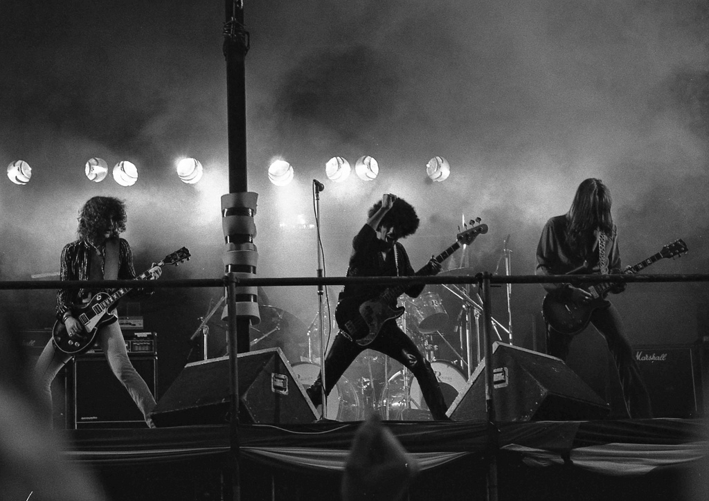 Thin Lizzy, performing at the 1978 Pinkpop festival: L to R: Brian Robertson, Phil Lynott, Scott Gorham, and Brian Downey (not visible at the drum kit)